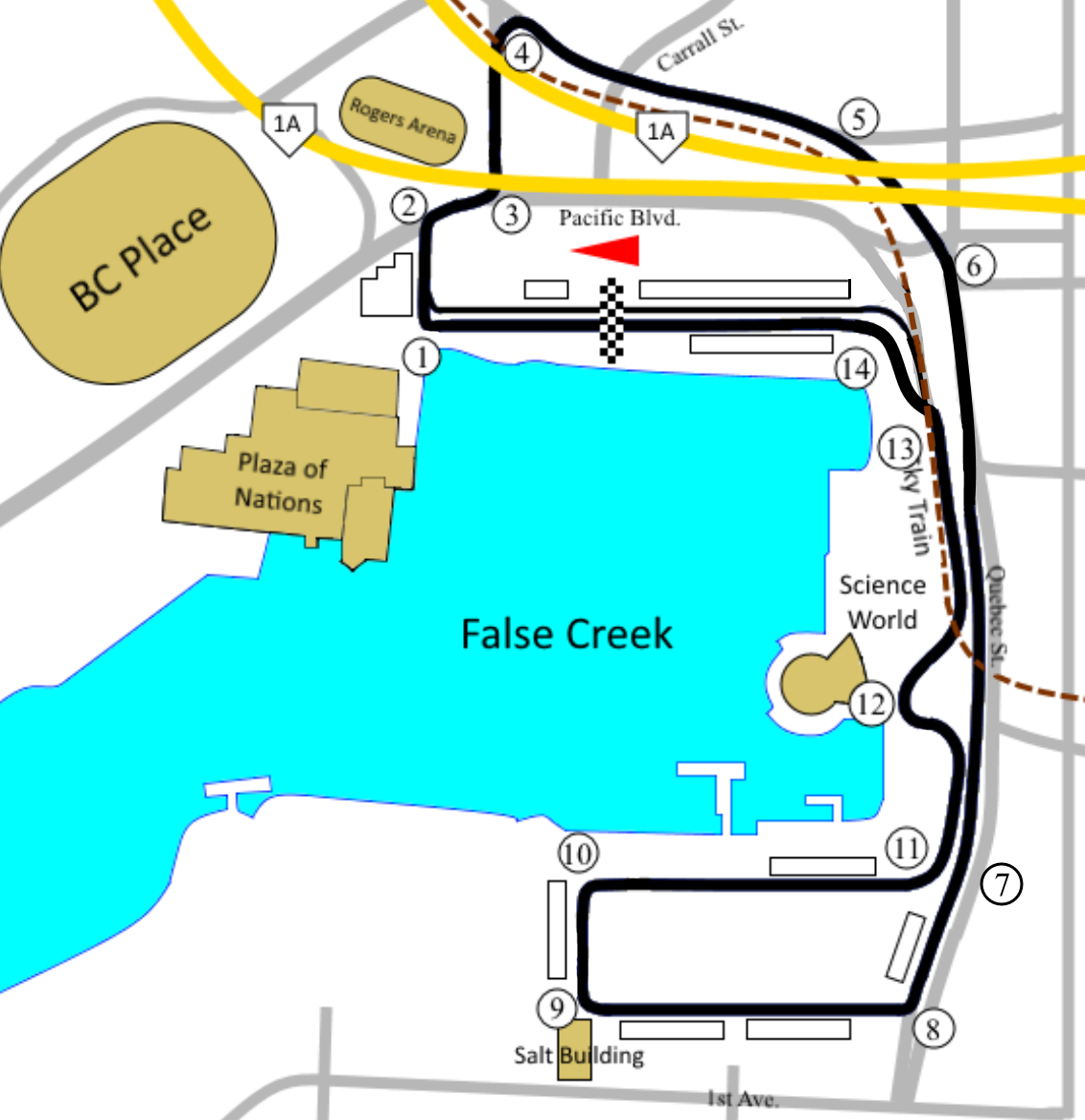 Variation of the new Vancouver layout with the chicane added at Turn 13 and removing the chicane after Turn 6.